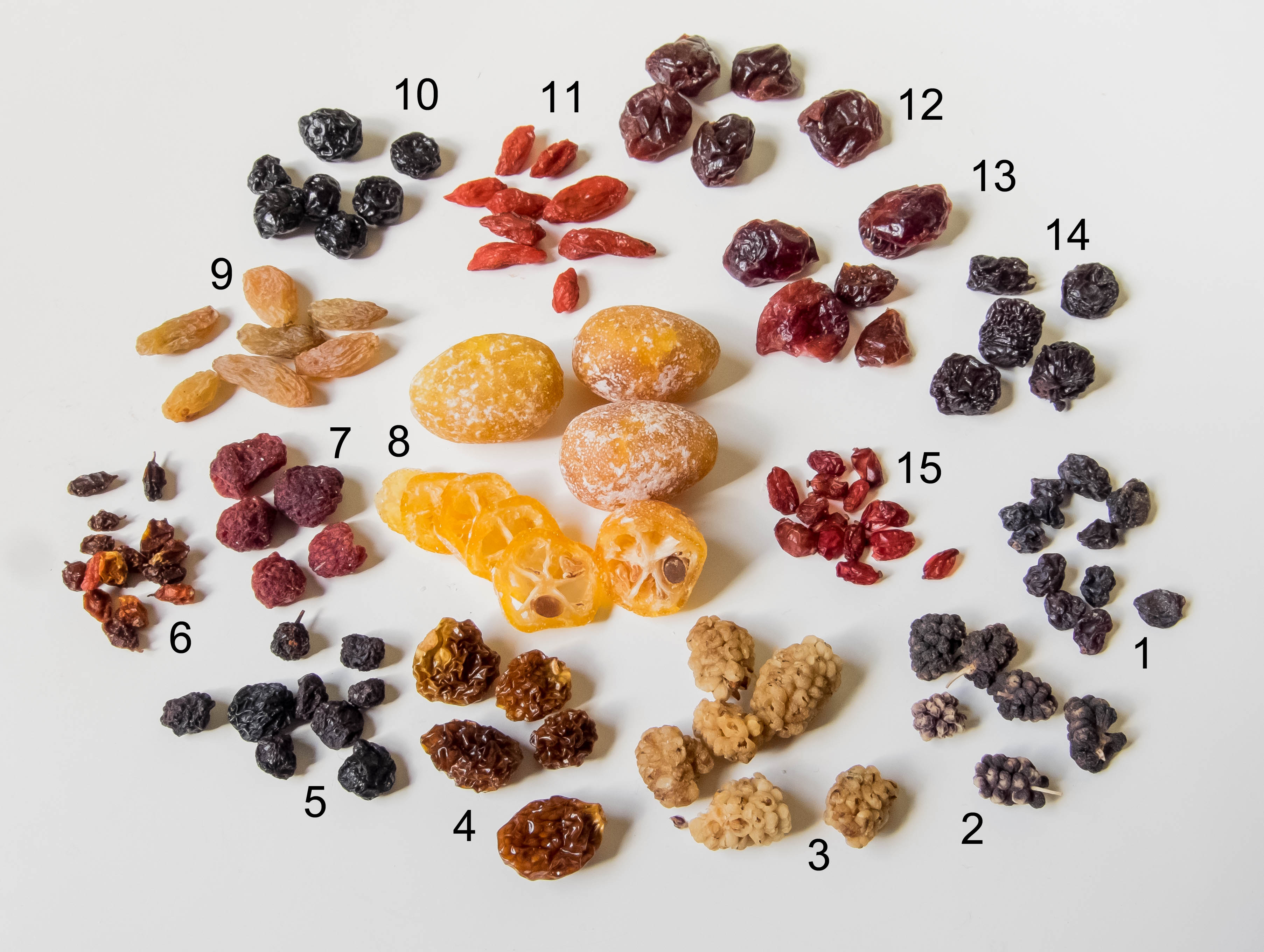 Dried fruits less commonly produced: 1 zante currants, 2 black mulberry, 3 white mulberry, 4 physalis, 5 aronia (chokeberries), 6 sea-buckthorn, 7 raspberry, 8 kumquats, 9 white raisins (dried in the shade), 10 blueberries, 11 goji, 12 cherries, 13 cranberries, 14 sour cherries, and 15 barberries.